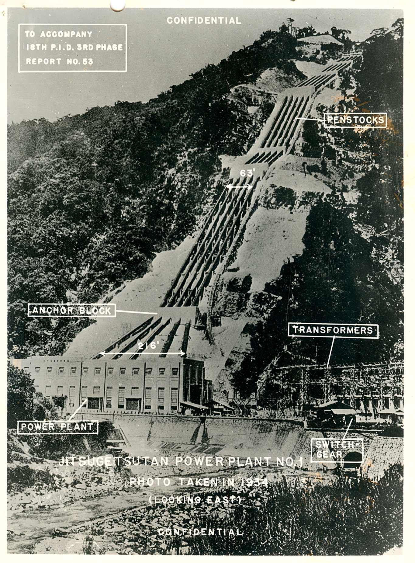 Jitsugetsutan Power Plant No. 1